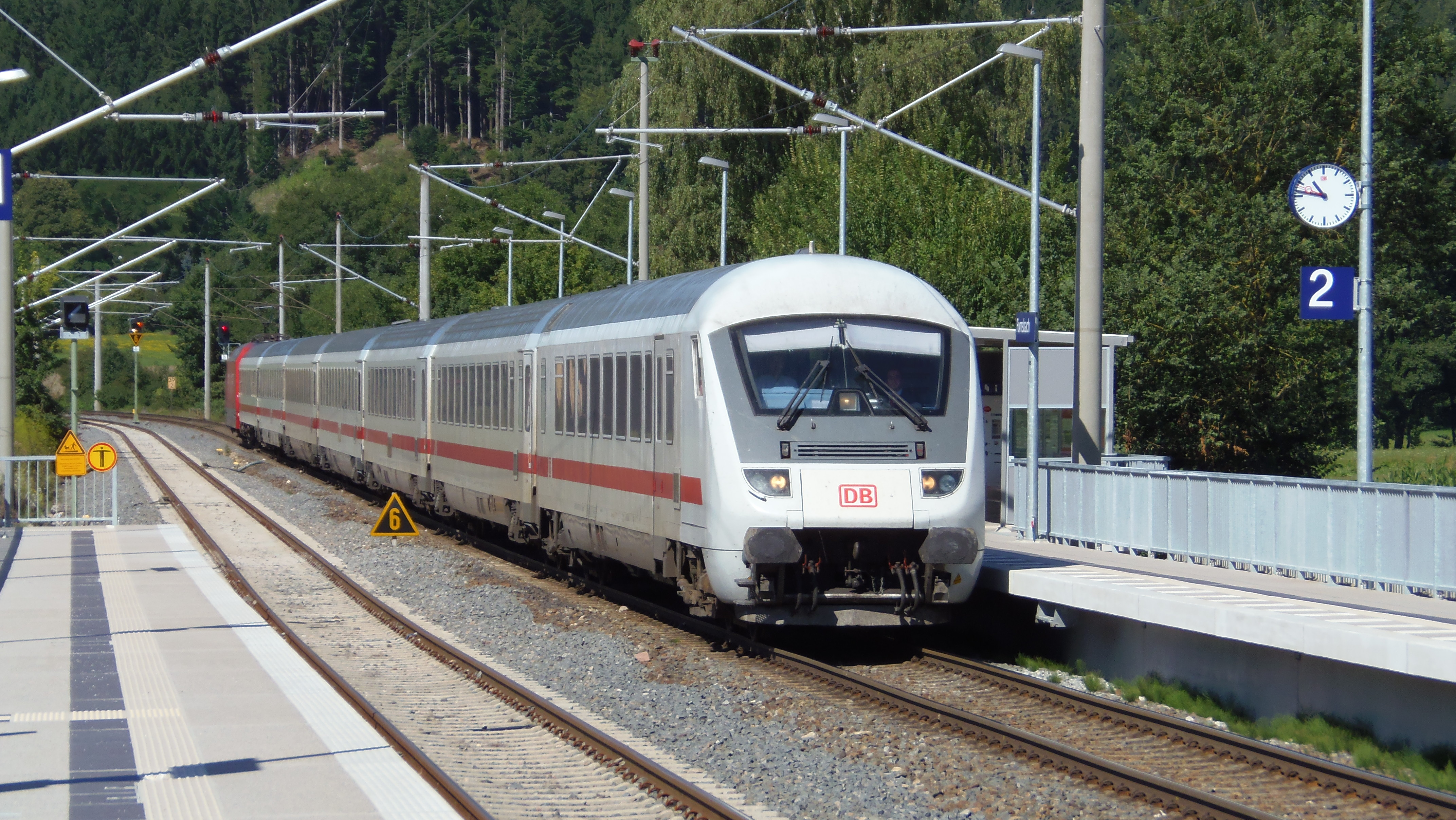 Intercity train passing through Fornsbach